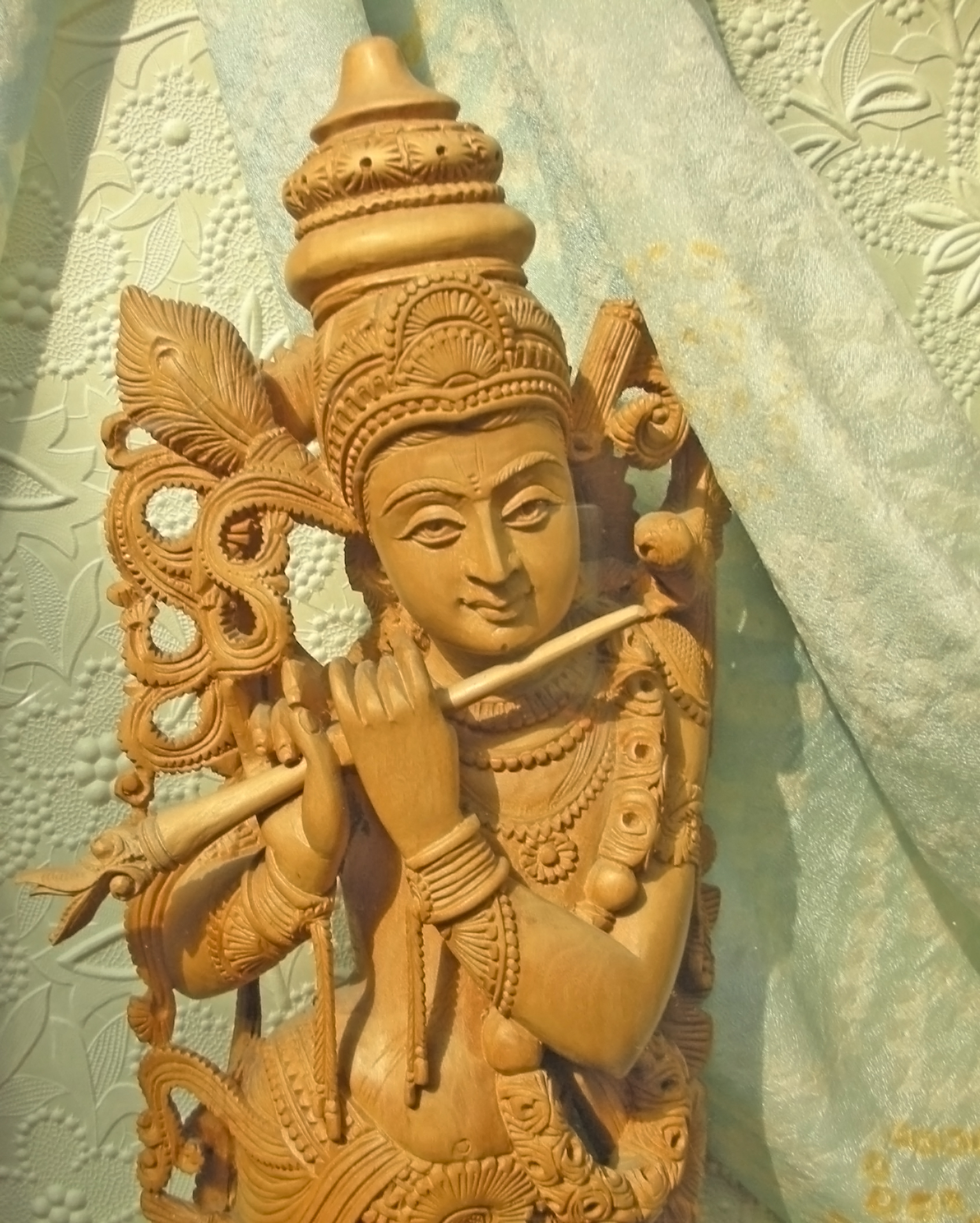 Lord Krishna Statue at a Hotel Near havard